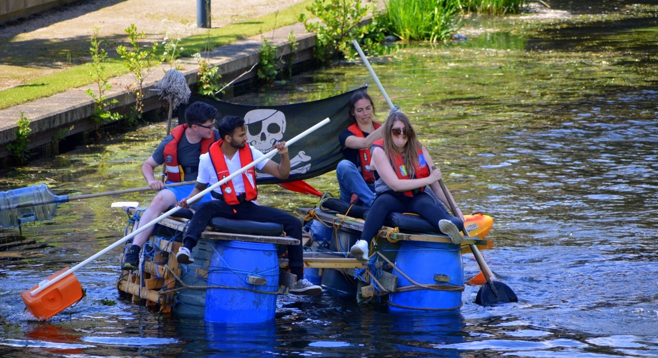 The Junk Boat Challenge at Leeds Waterfront Festival 2016